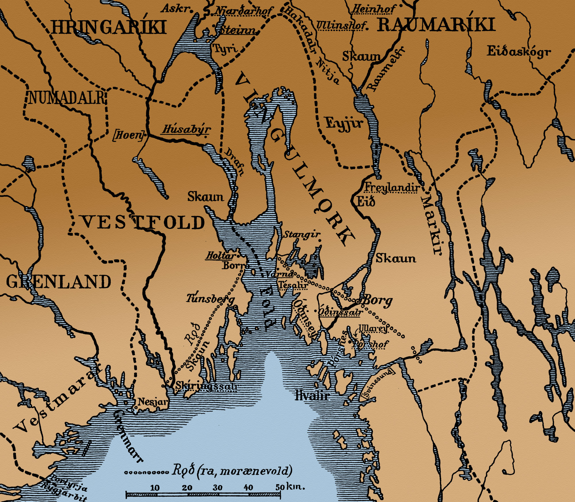 Map of Viken and Oslfjord in the Middle Ages